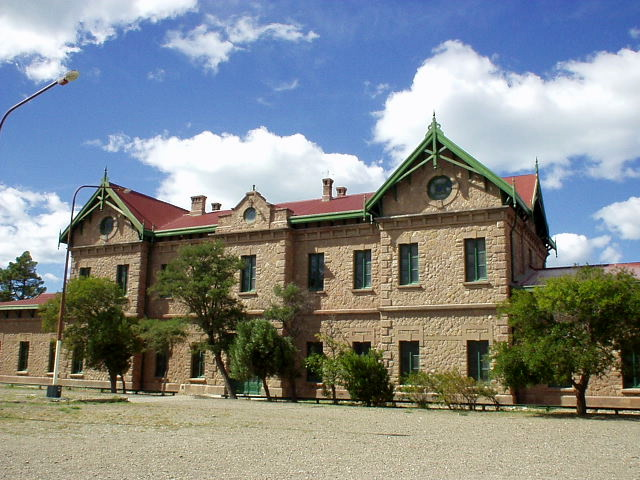 Former Puerto Deseado train station, currently a Railway Museum. Santa Cruz Province, Argentina.